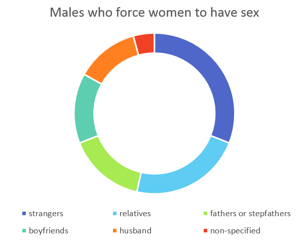 graphical representation of rape